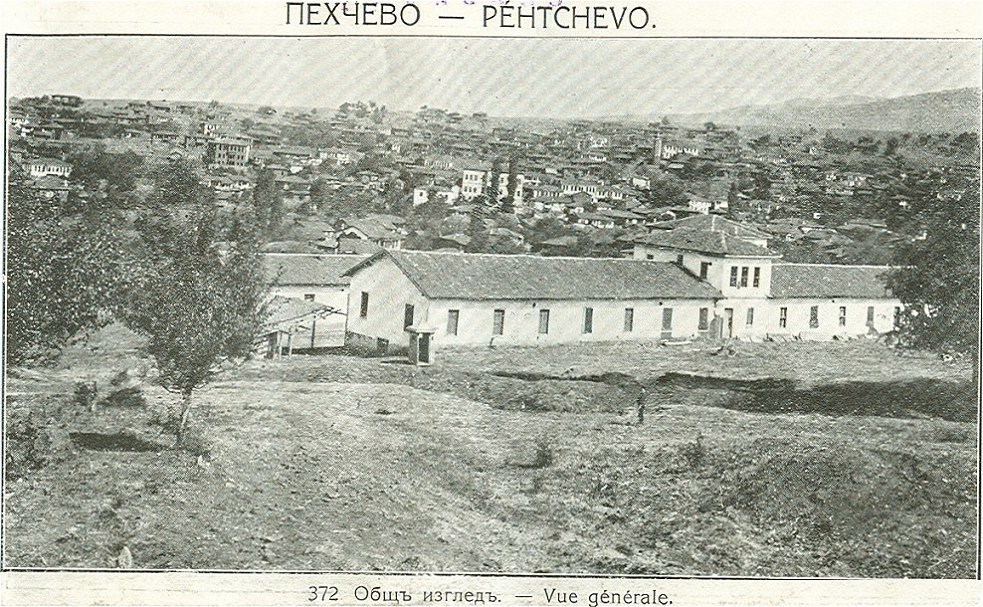 City of Pehchevo